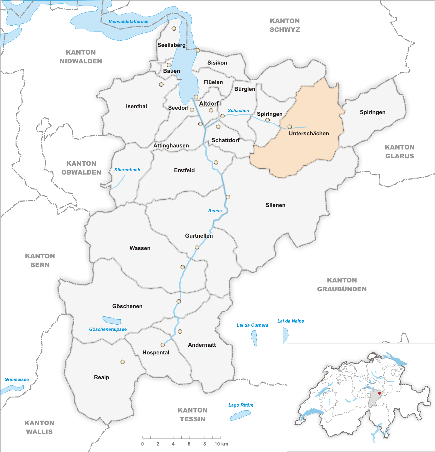 Municipality Unterschächen